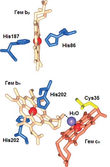 Haems position in cytochrome b6f-complex. Made with Avogadro. Structure PDB 2zt9.